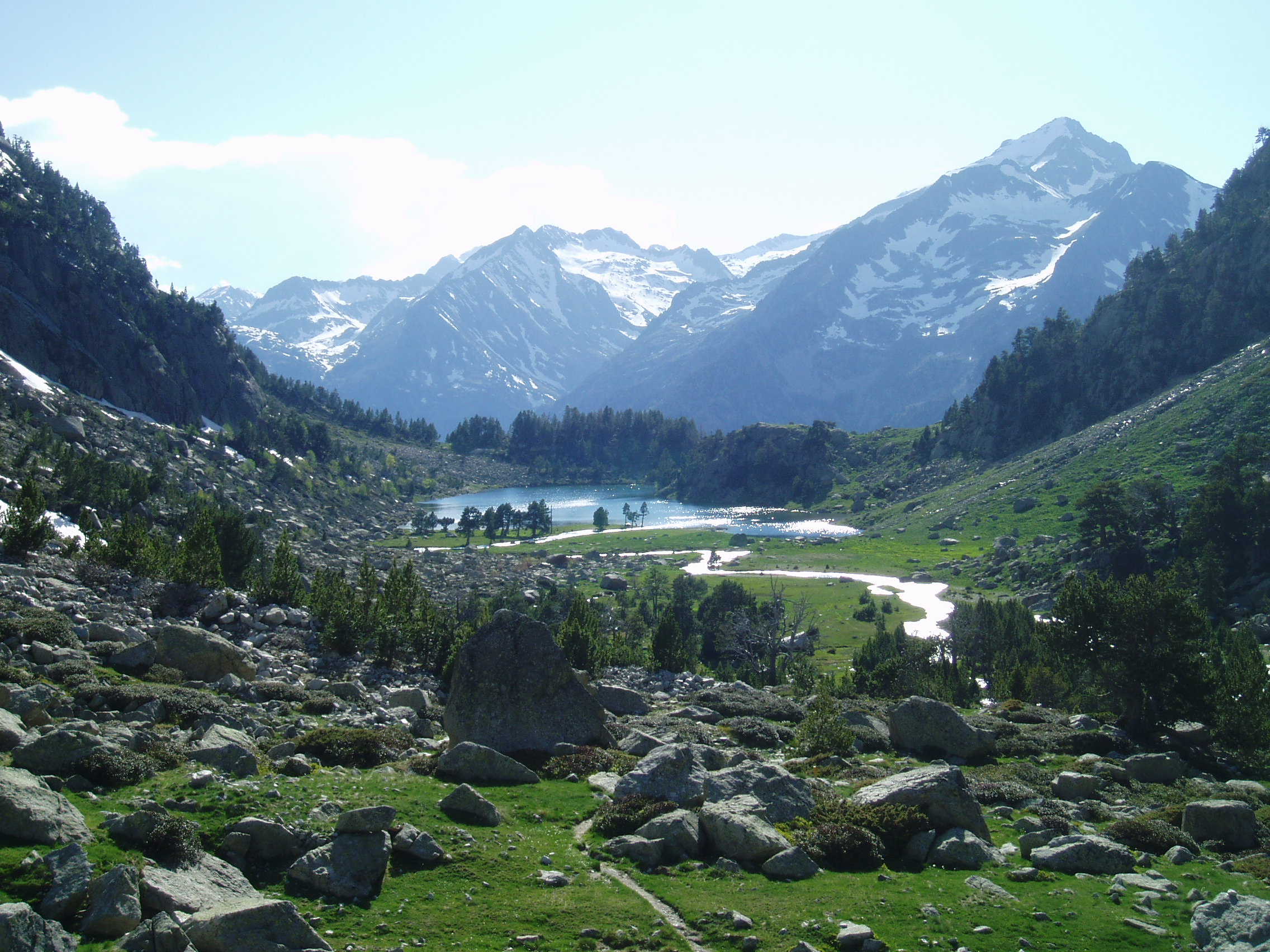 Photo of Beciberri in the Pyrenees, in Catalonia